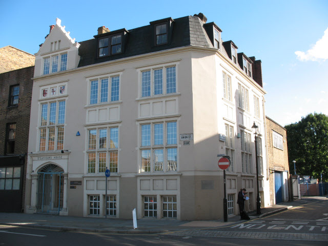 St Saviour's House, Union Street The building was (according to the foundation stone) built in 1911. Given its name and that the Archdeacon of Southwark is named on the stone, it was presumably associated with Southwark Cathedral. It is now the offices of Day England Stevensen Marsh (Architects).